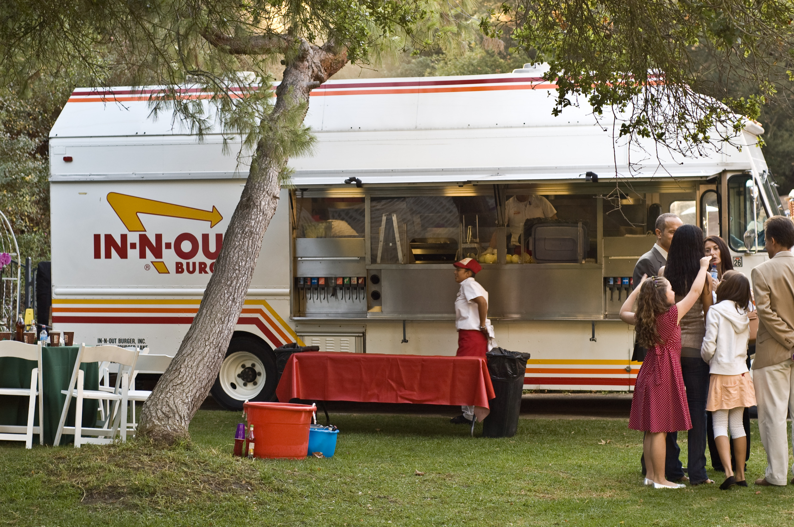 An In-N-Out Burger catering truck at a wedding in a canyon above Malibu, California, USA. Original comments by photographer: "Catering was by IN-N-OUT and Louise's Trattoria. Amazingly, they were able to get their restaurant truck all the way up into the canyon and set up at the event. It seemed to me that the truck was a big hit, even though the pastas and hors d'oeuves by Louise's were good."